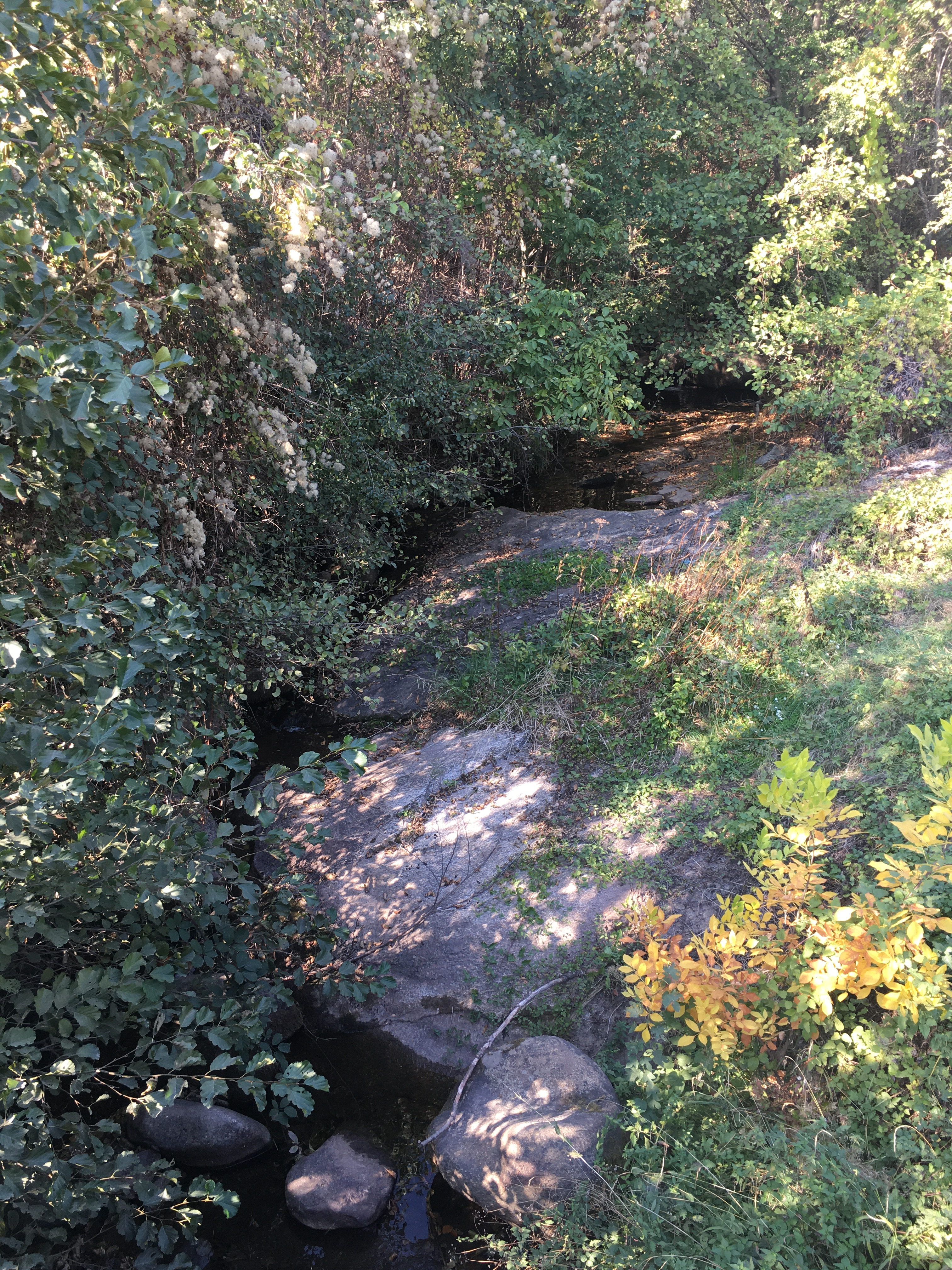 Stroška River through the village of Strovija